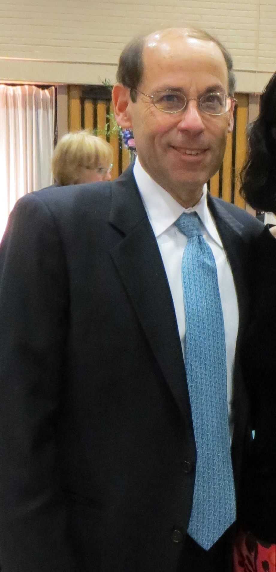 Kenneth Geller at a party in December 2012.